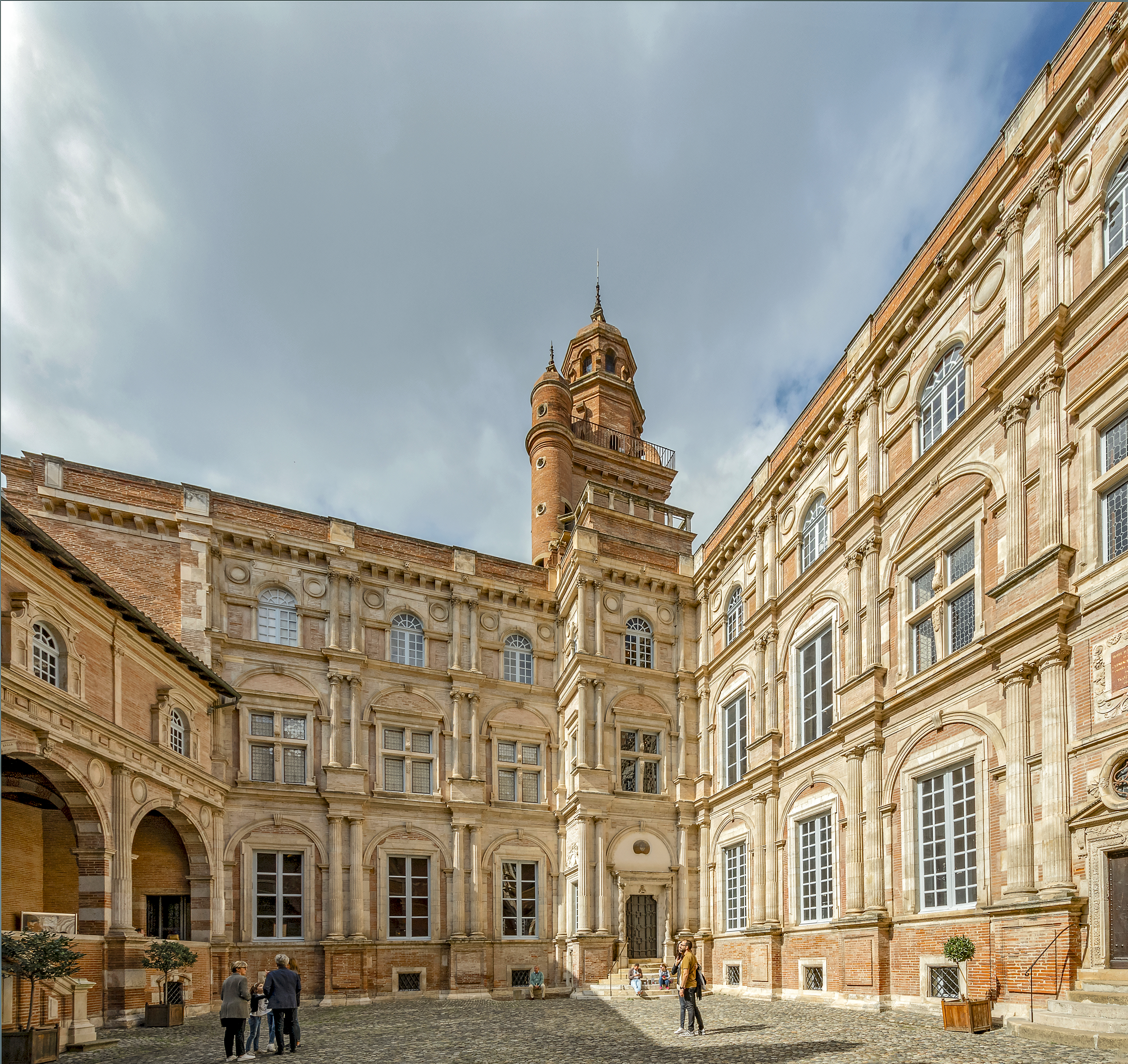 Hôtel d'Assézat in Toulouse; The inner courtyard.